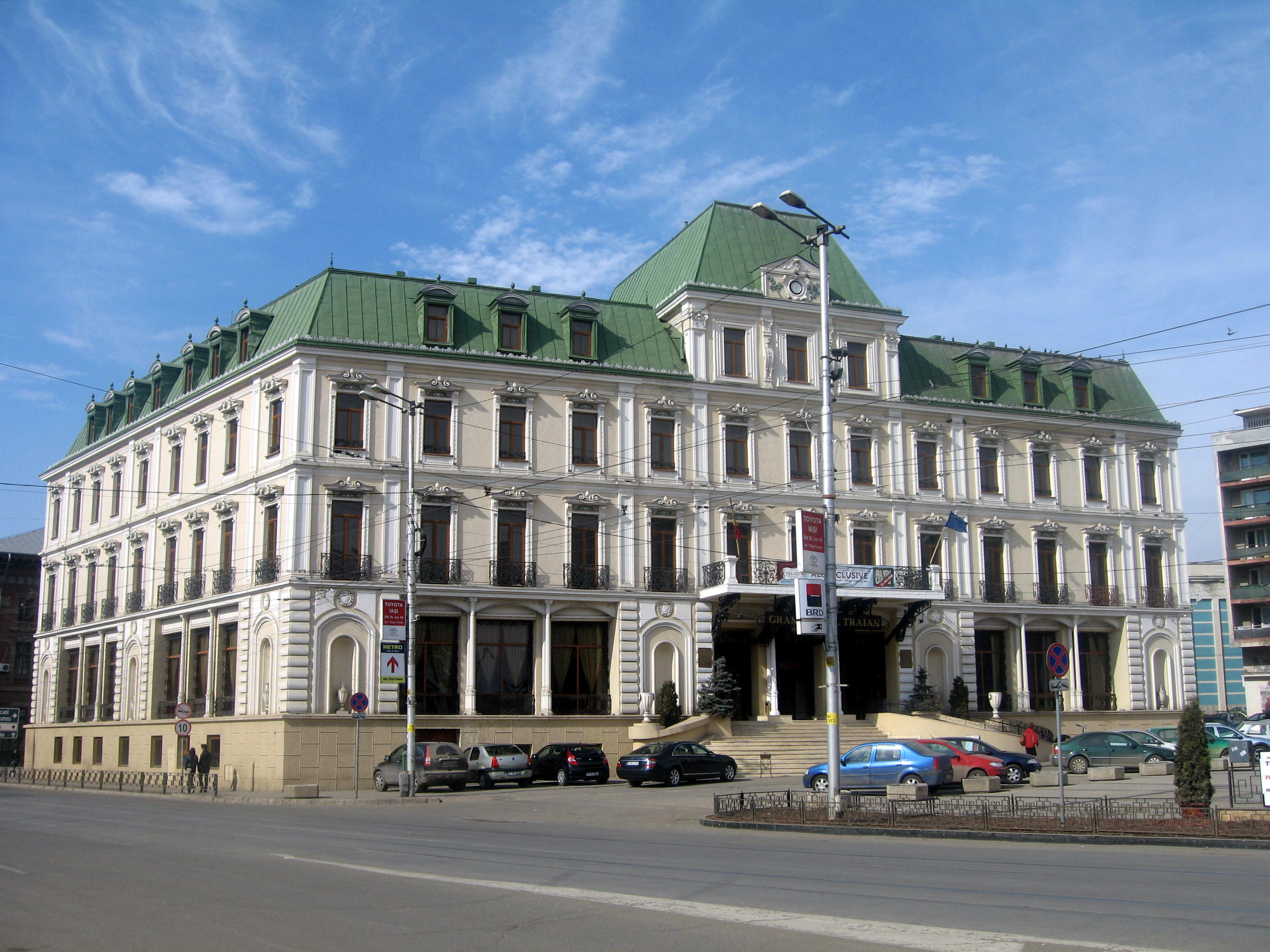 Grand Hotel Traian in Iași, Romania